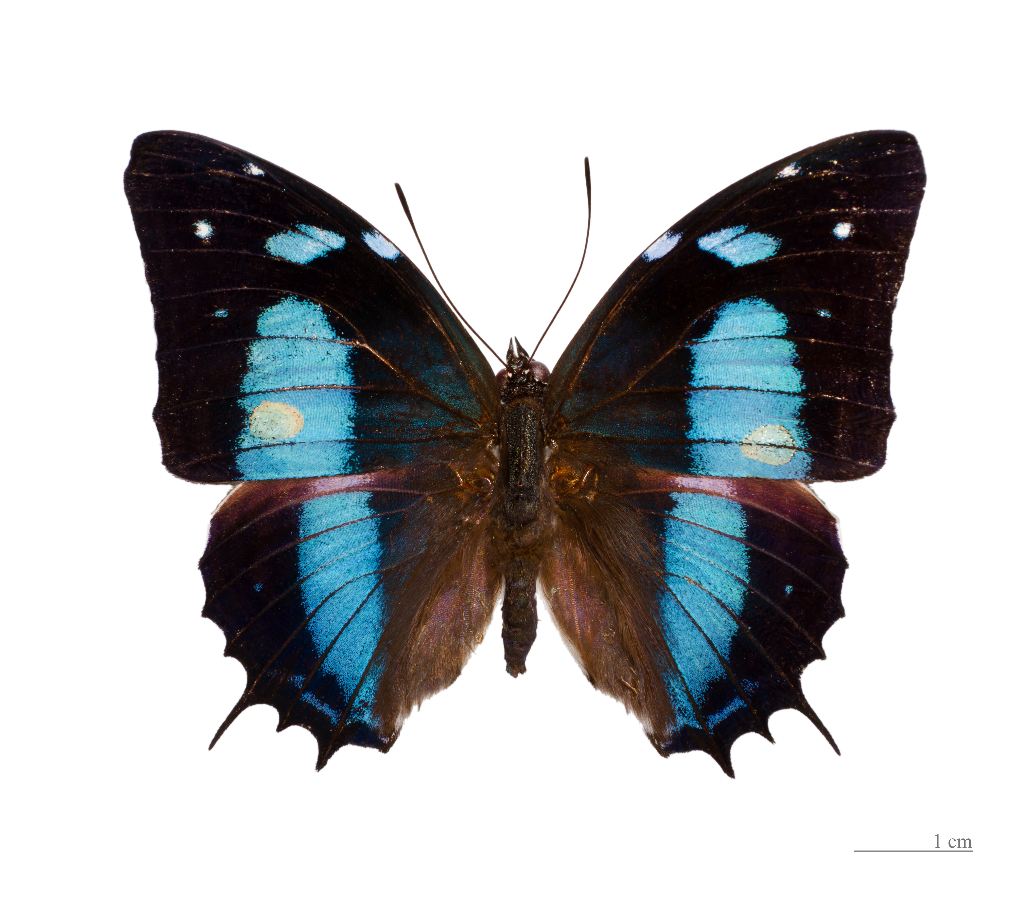 ♂ - Dorsal side Locality : Cacao, Crique Baguot, French Guiana.